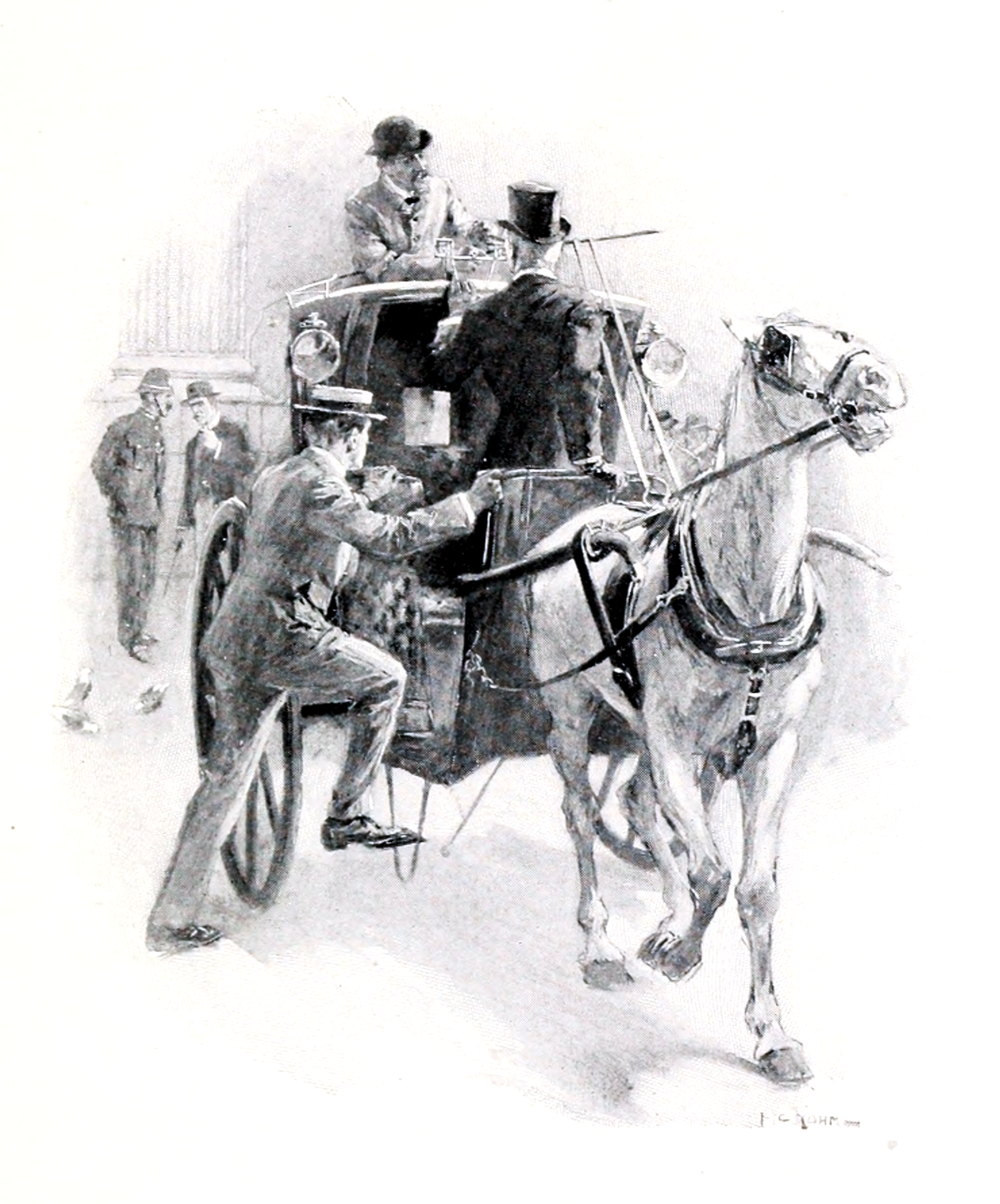 Illustrations from the book Raffles (Charles Scribner's sons, 1906), written by E. W. Hornung and illustrated by F. C. Yohn